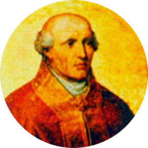 Portait of Pope Boniface VIII in the Basilica of Saint Paul Outside the Walls, Rome